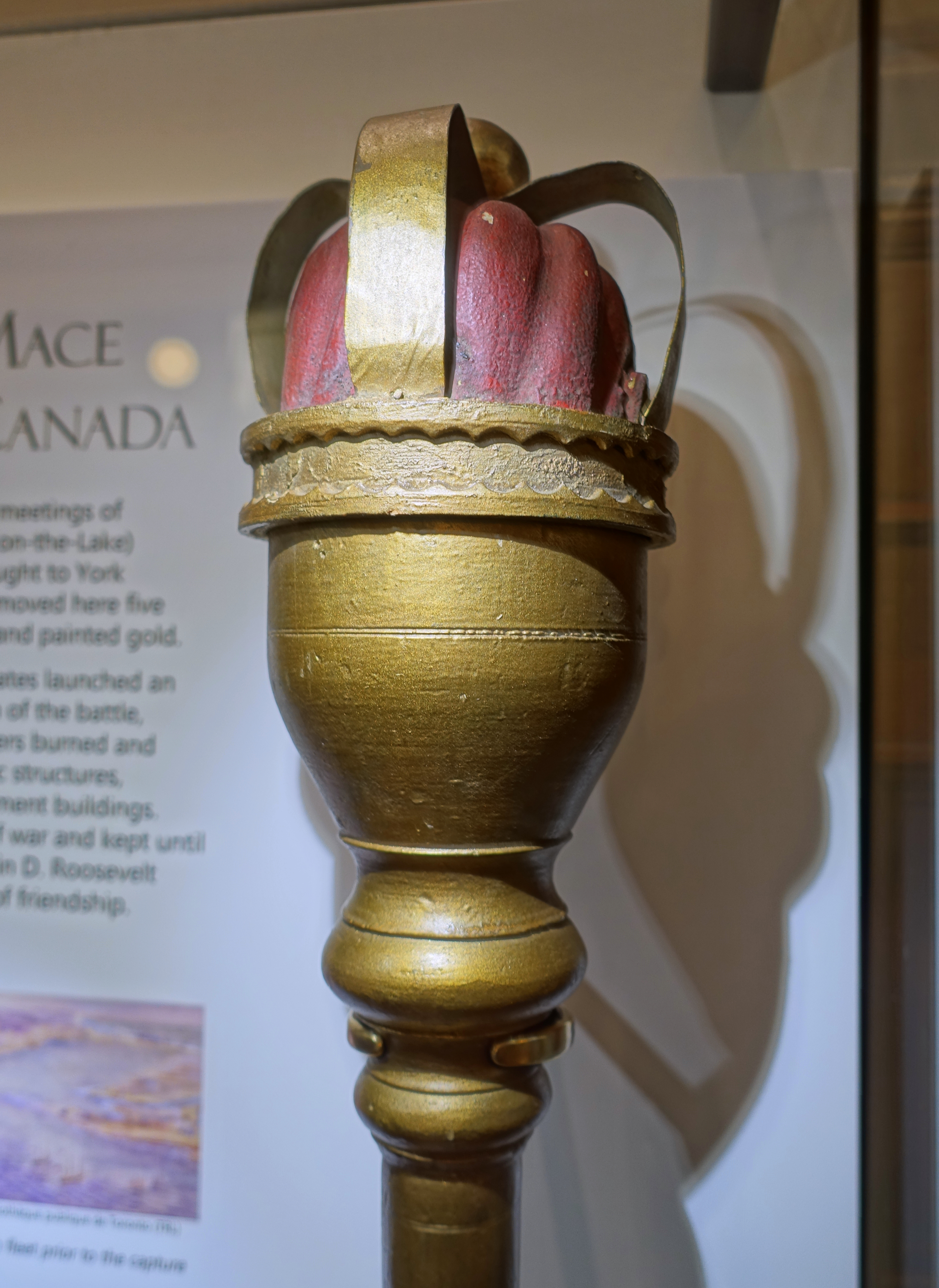 Ceremonial mace in the Ontario Legislative Building, Toronto, Ontario, Canada.